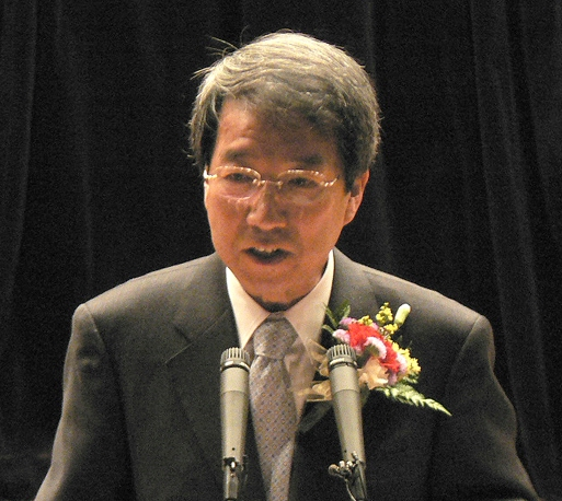 Chung Un-Chan, the current Prime Minister of South Korea, Cropped.